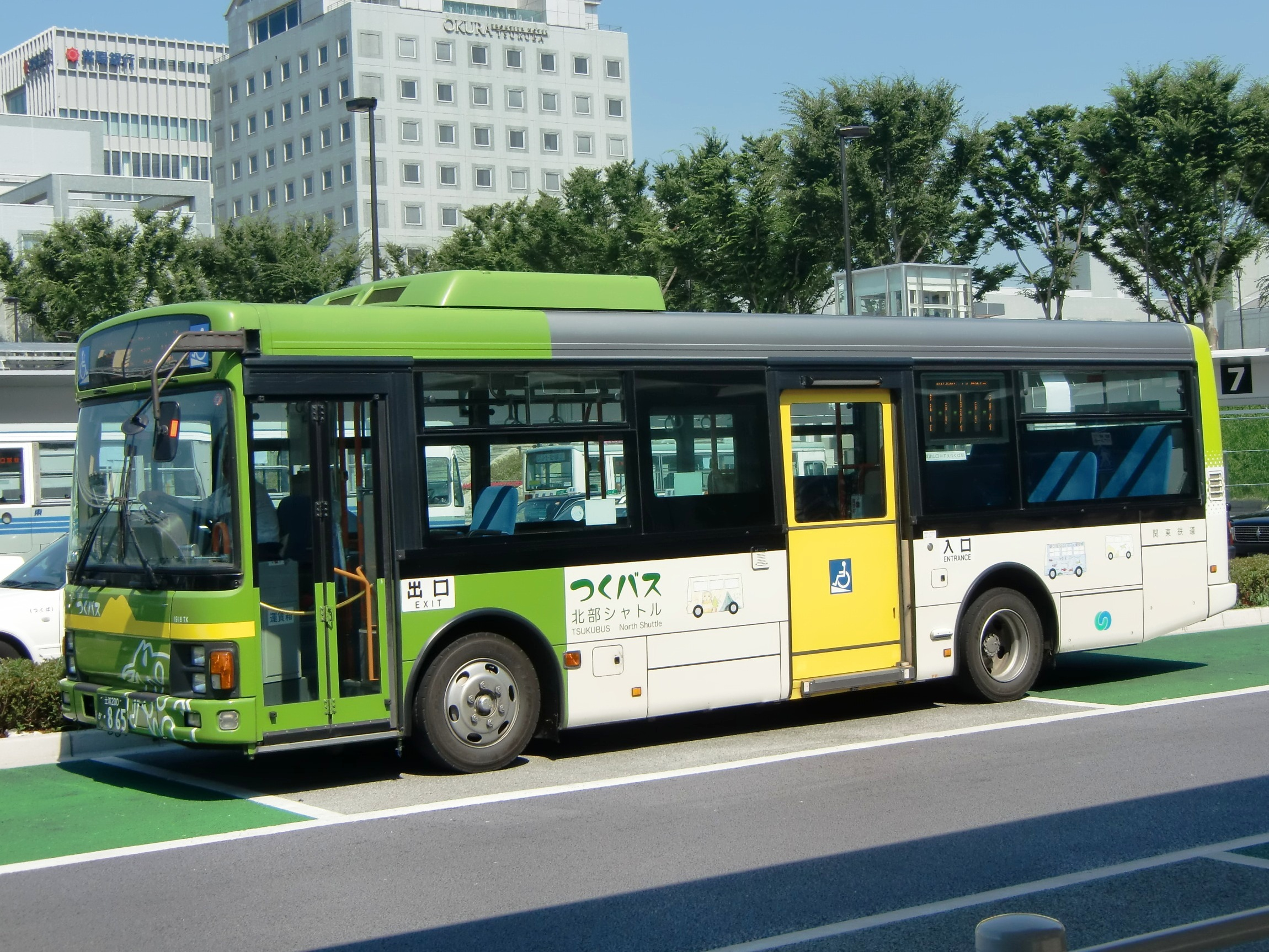 Tsukubus North shuttle in Tsukuba Center Bus Terminal, Azuma 1-chome, Tsukuba city, Ibaraki prefecture, Japan. This bus number is "Tsuchiura 200 Ka ・8-65". Car model is ISUZU ELGAmio.